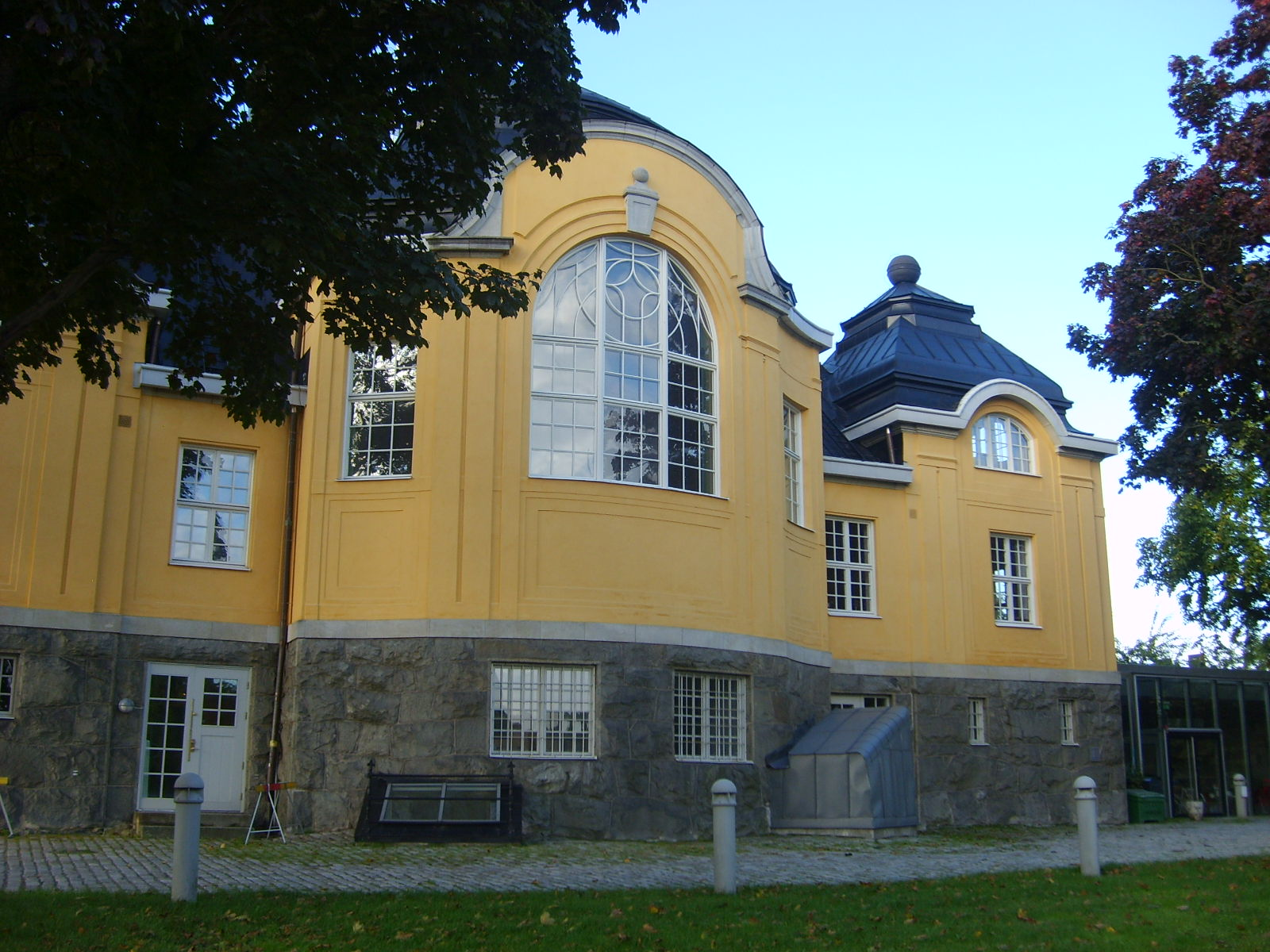 Hagströmerbiblioteket.